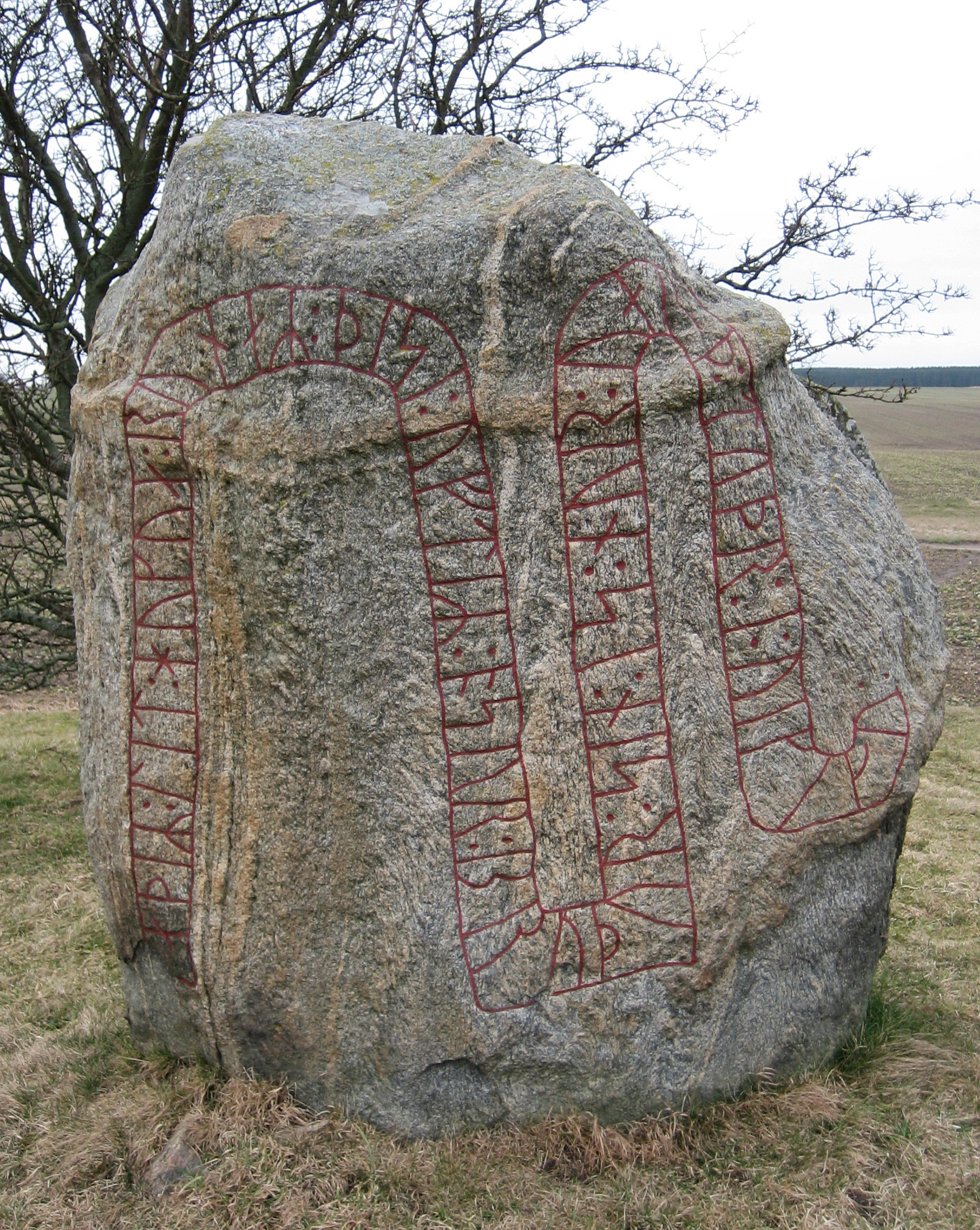 DR 334 - Västra Ströstenen 1. Runestone DR 334 at Västra Strö viking age monument, Skåne, Sweden. Photo by the uploader 2009-03-14.